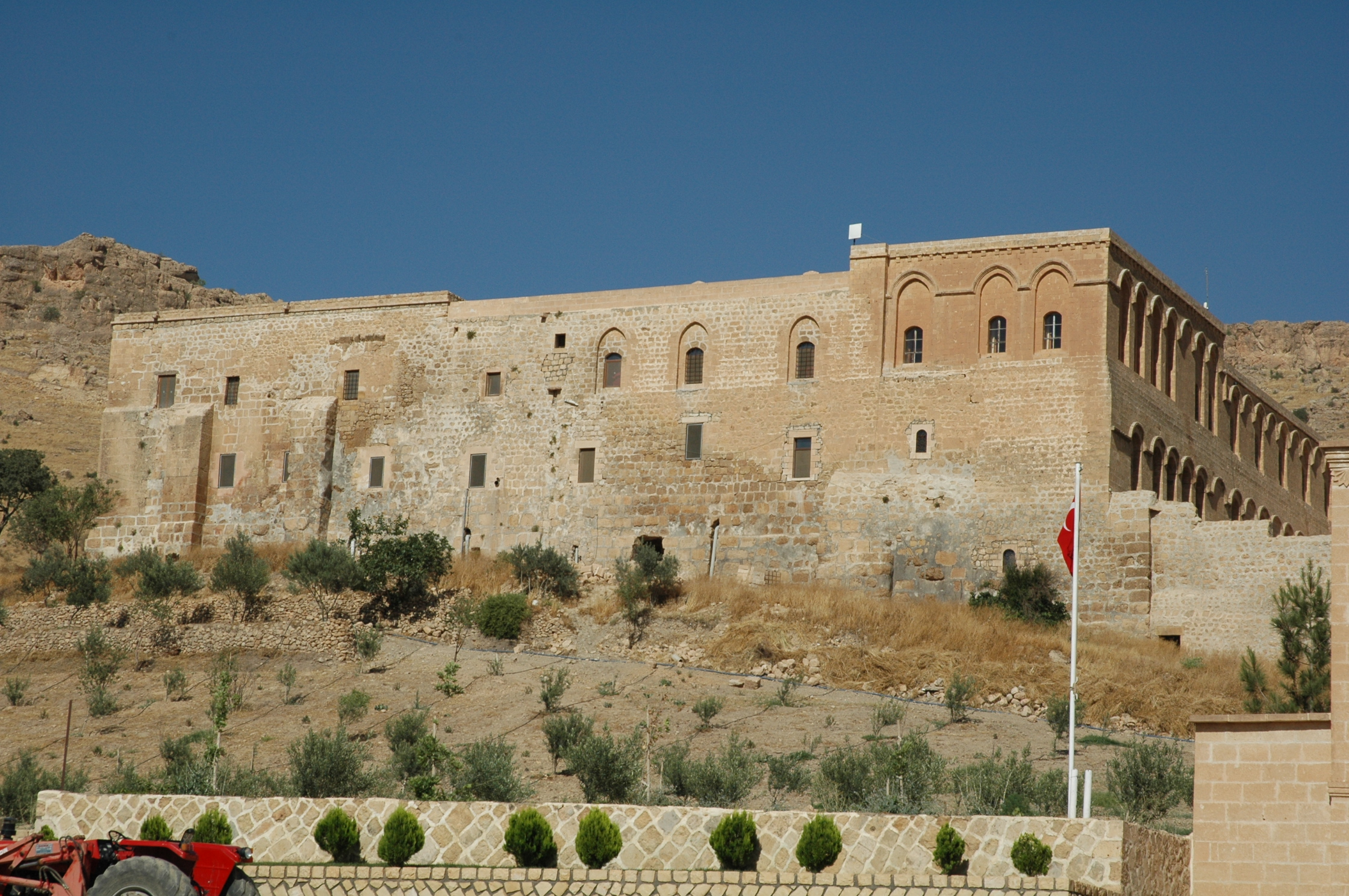 Monastery of Deyrul Zafran